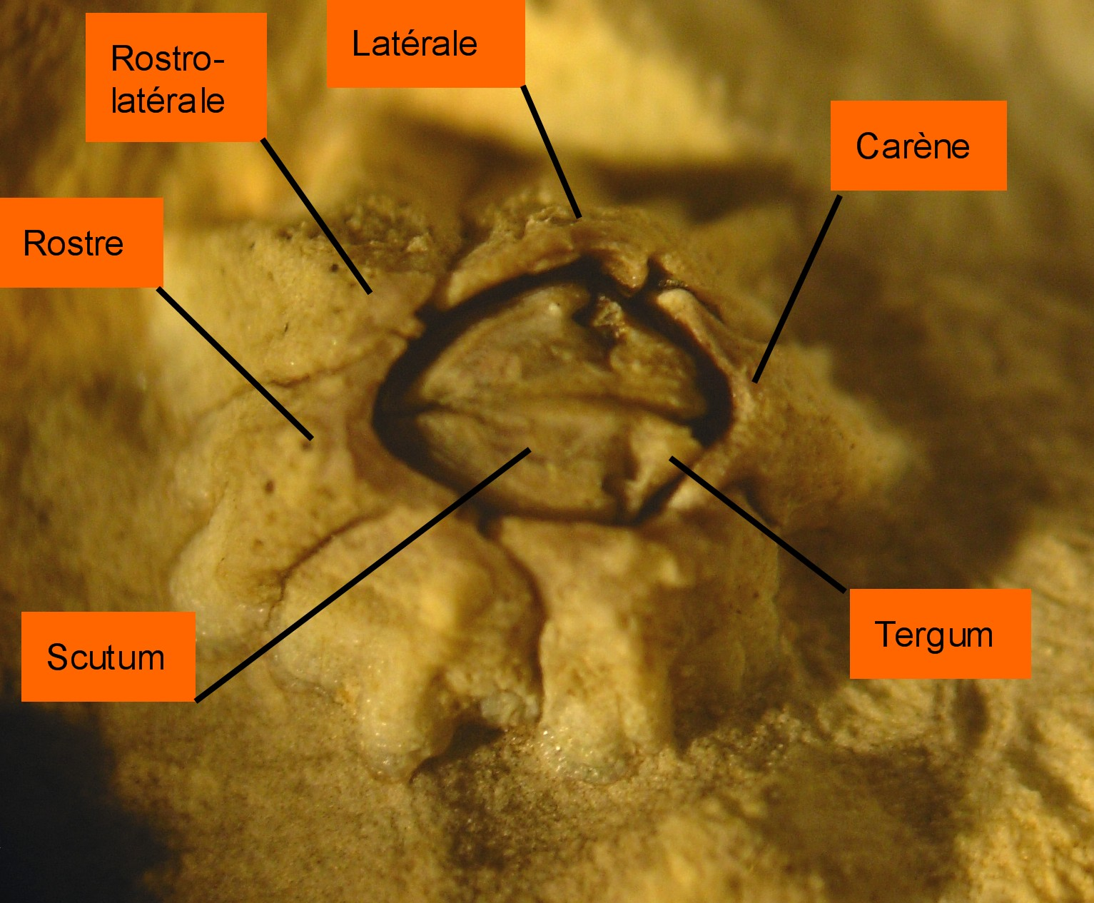 Plates names in Chthamalus